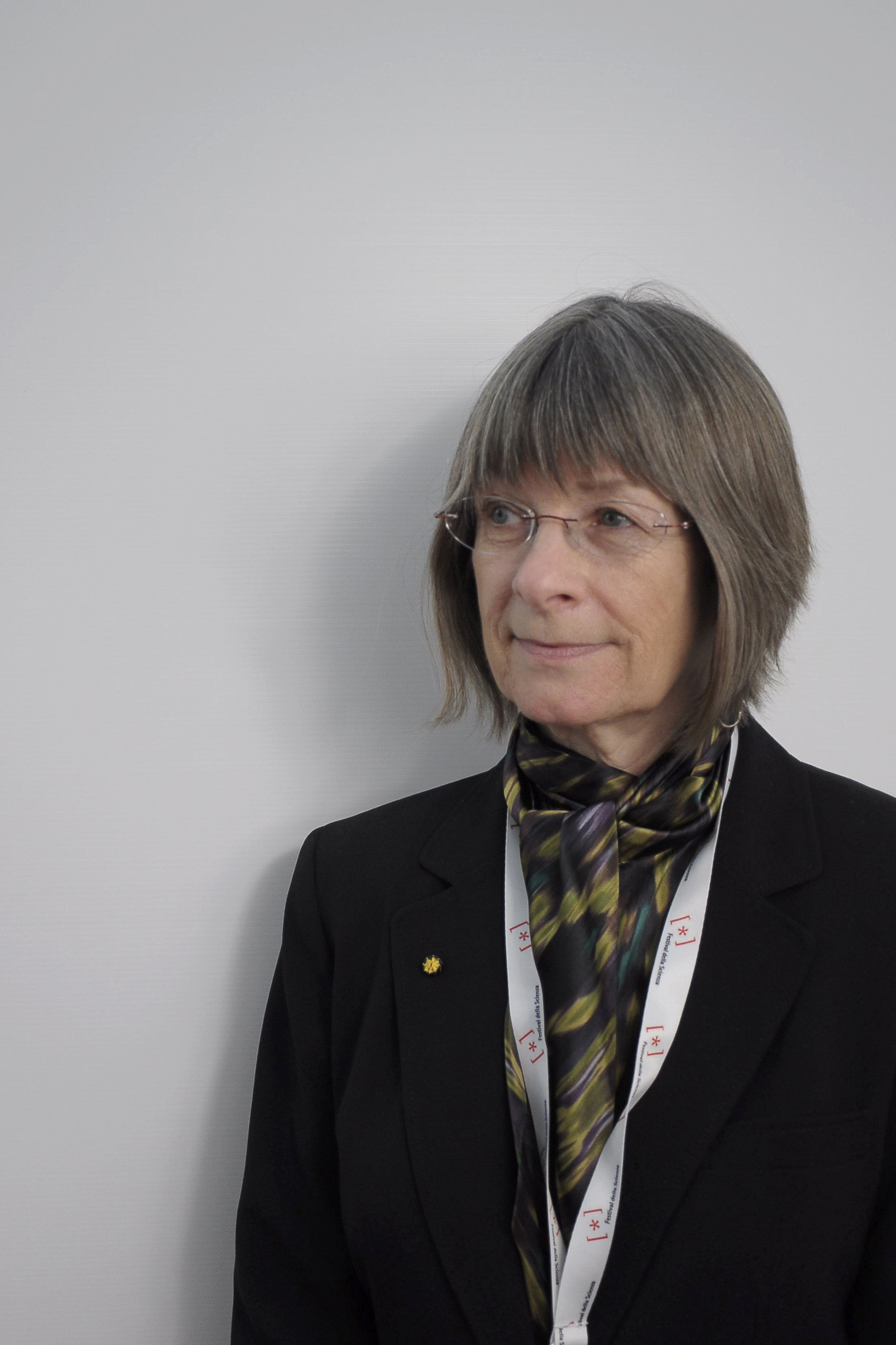 American anthropologist Dean Falk. This picture was taken in Genoa, Italy, at the 2011 Festival della Scienza.